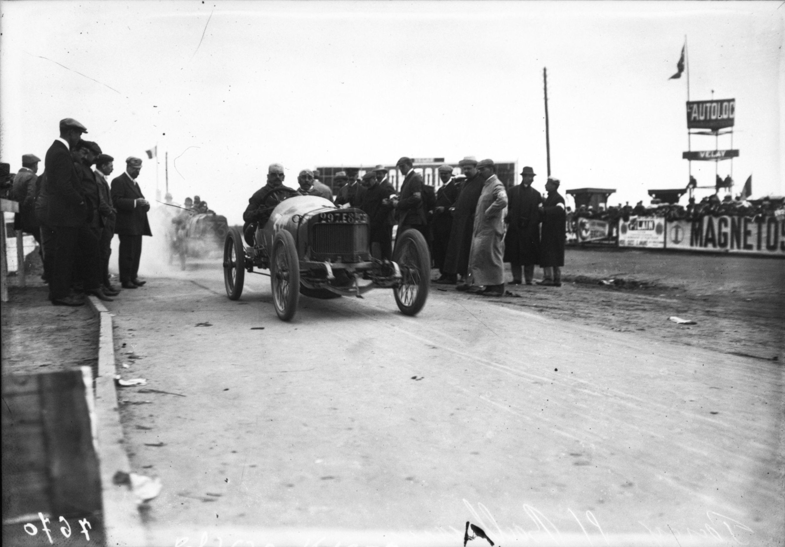 Farcy in his Bailleau at the 1908 Grand Prix des Voiturettes at Dieppe.